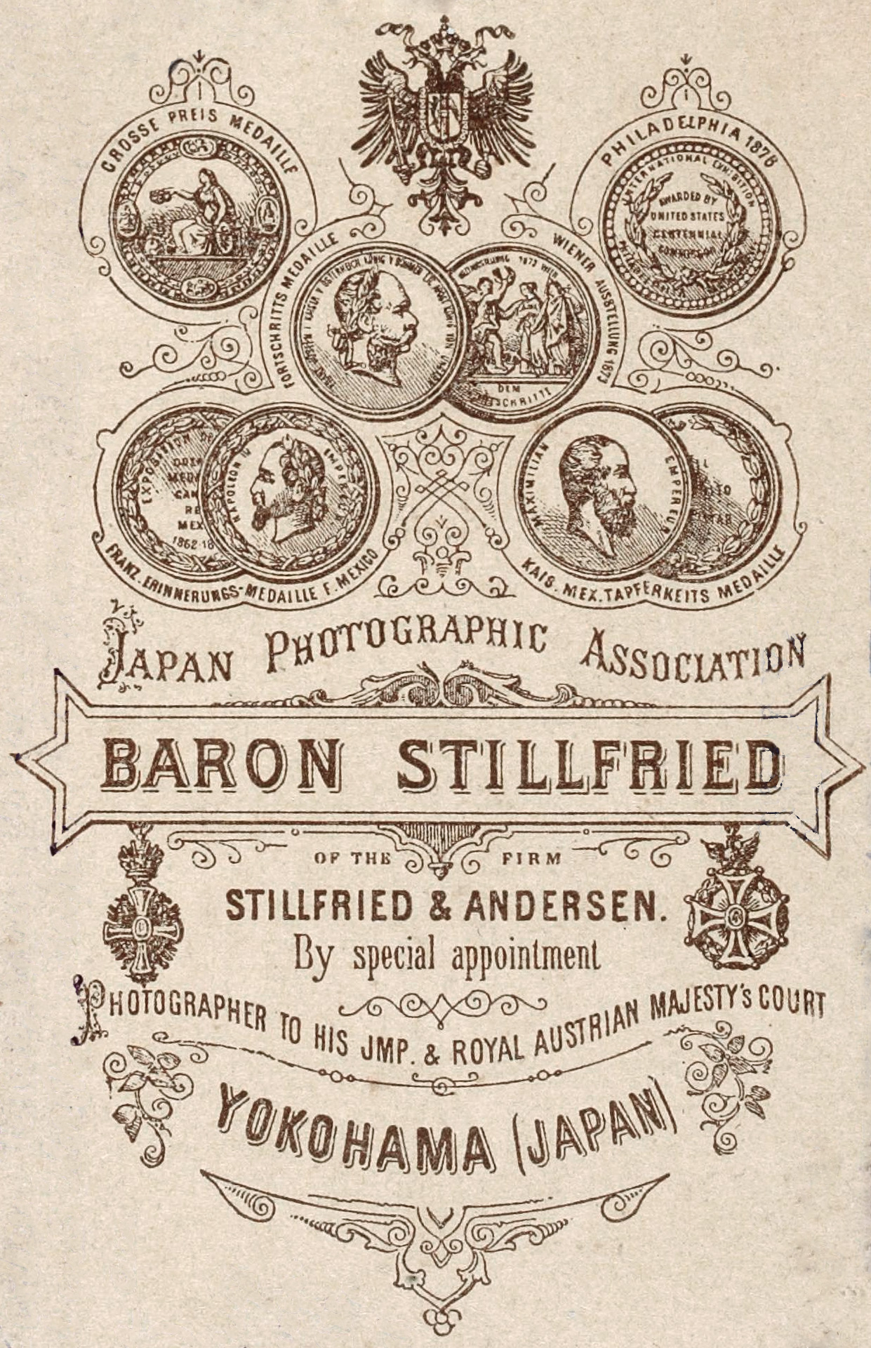 CDV Verso for Baron Stillfried of the firm Stillfried & Andersen